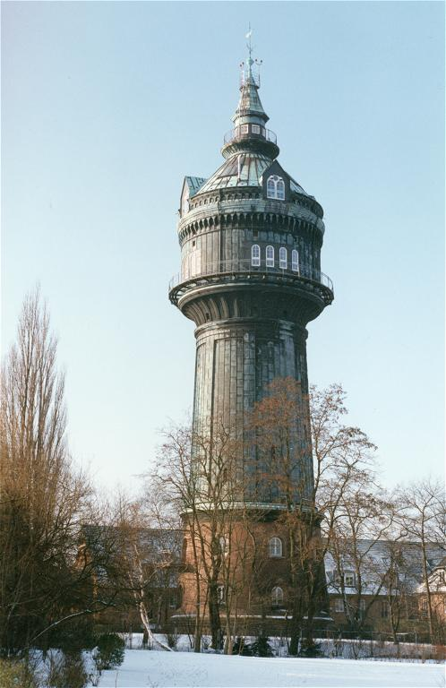 Hamburg-Lokstedt (Germany), water tower , photo 2008